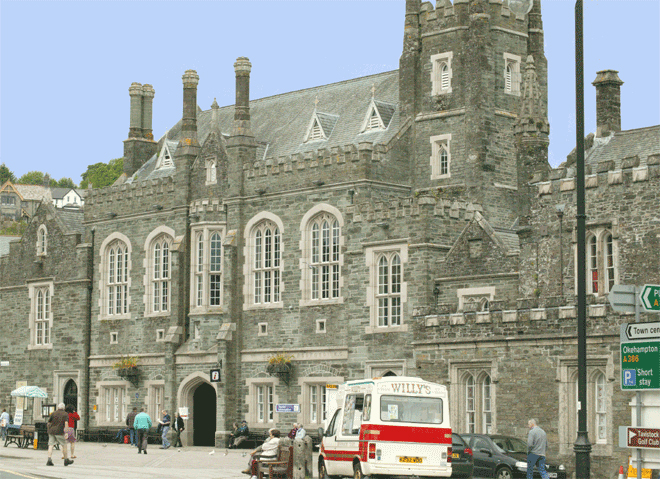 Photograph of Tavistock's main square and Town Hall